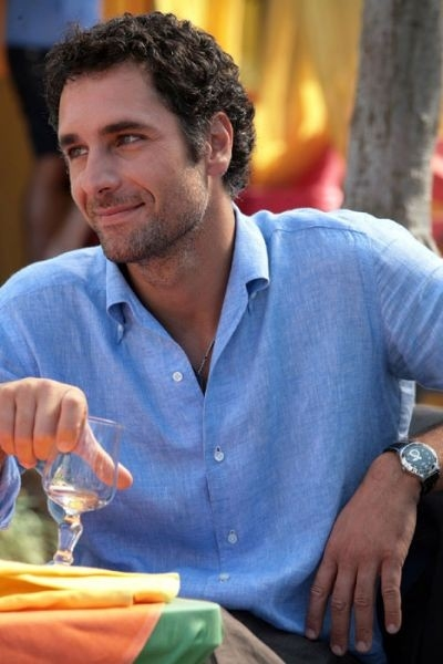 Scusa ma ti chiamo amore is a 2008 Italian film starring Raoul Bova and Michela Quattrociocche. Alex Belli (Bova) is a 37 year old advertising executive whose fiancée Elena has just left him, and who is having difficulty at work trying to think of a good advertising campaign for a new Japanese product. Niki is a bubbly 17 year old student. She has three best friends with whom she shares all her problems, and an annoying ex-boyfriend Fabio who is set on getting her back, but Niki's not interested. One day on his way to work, Alex collides with Niki on a city street. They soon begin a romance, despite their 20-year age gap. This movie also stars Edoardo Natoli, Luca Angeletti and Cecilia Dazzi. The film contains music from, and an appearance by, the Italian pop band Zero Assoluto. The title song, Scusa ma ti chiamo amore, is performed by Sugarfree